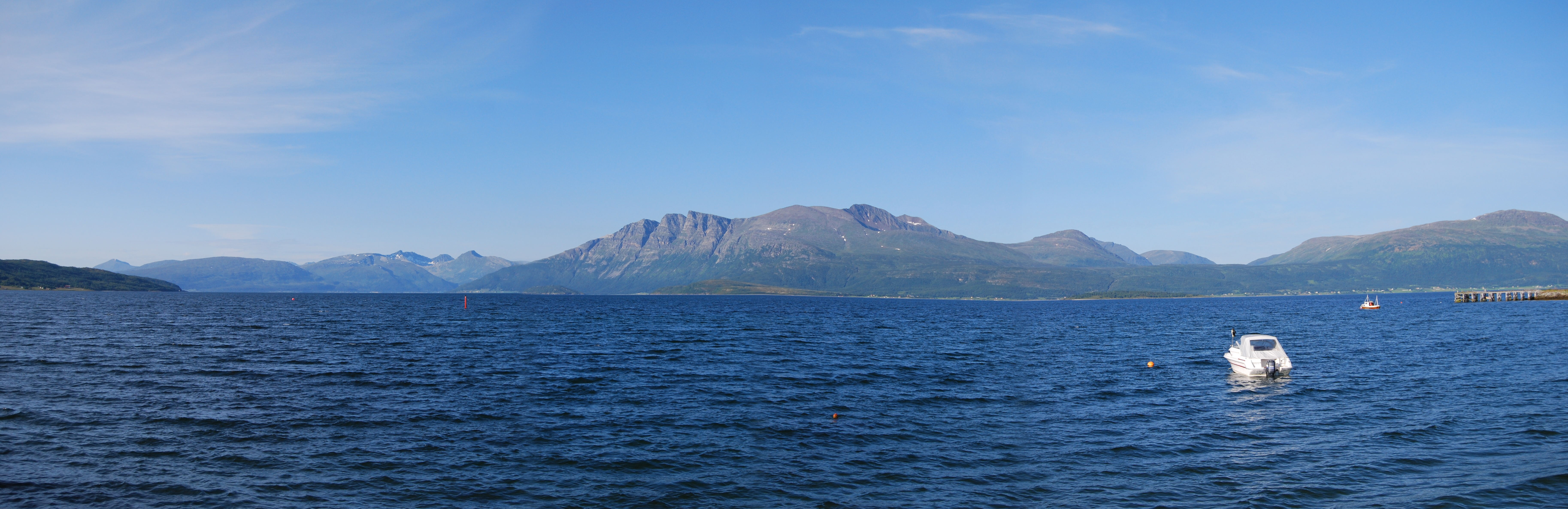 Malangen fjord and Klemmartindan hill in the back, Norway; view north from Rossfjord Church.